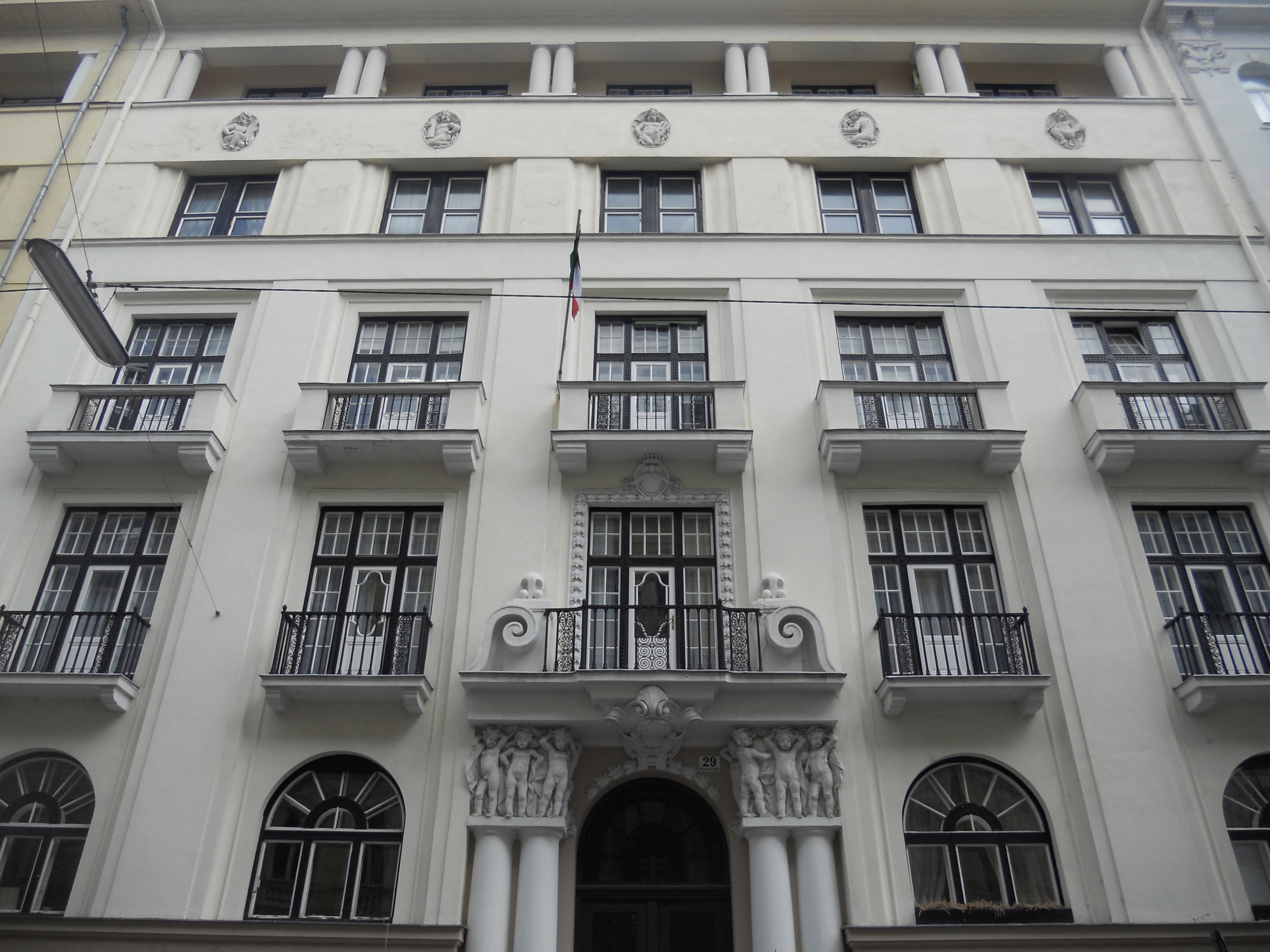 House Reisnerstraße 29 in Vienna, sudanese Embassy